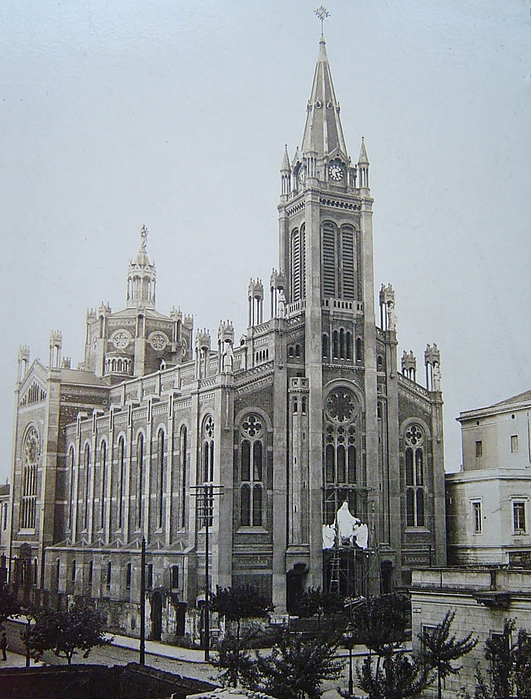 St. Charles Borromeo’s Temple. Buenos Aires, Argentina. At present, the temple is also dedicated to Mary Help of Christians.